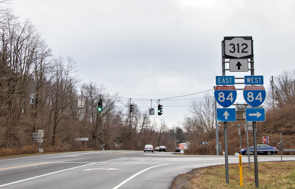 New York State Route 312 (Westbound) at the Junction & Freeway entrance to Interstate 84. In Southeast, New York.